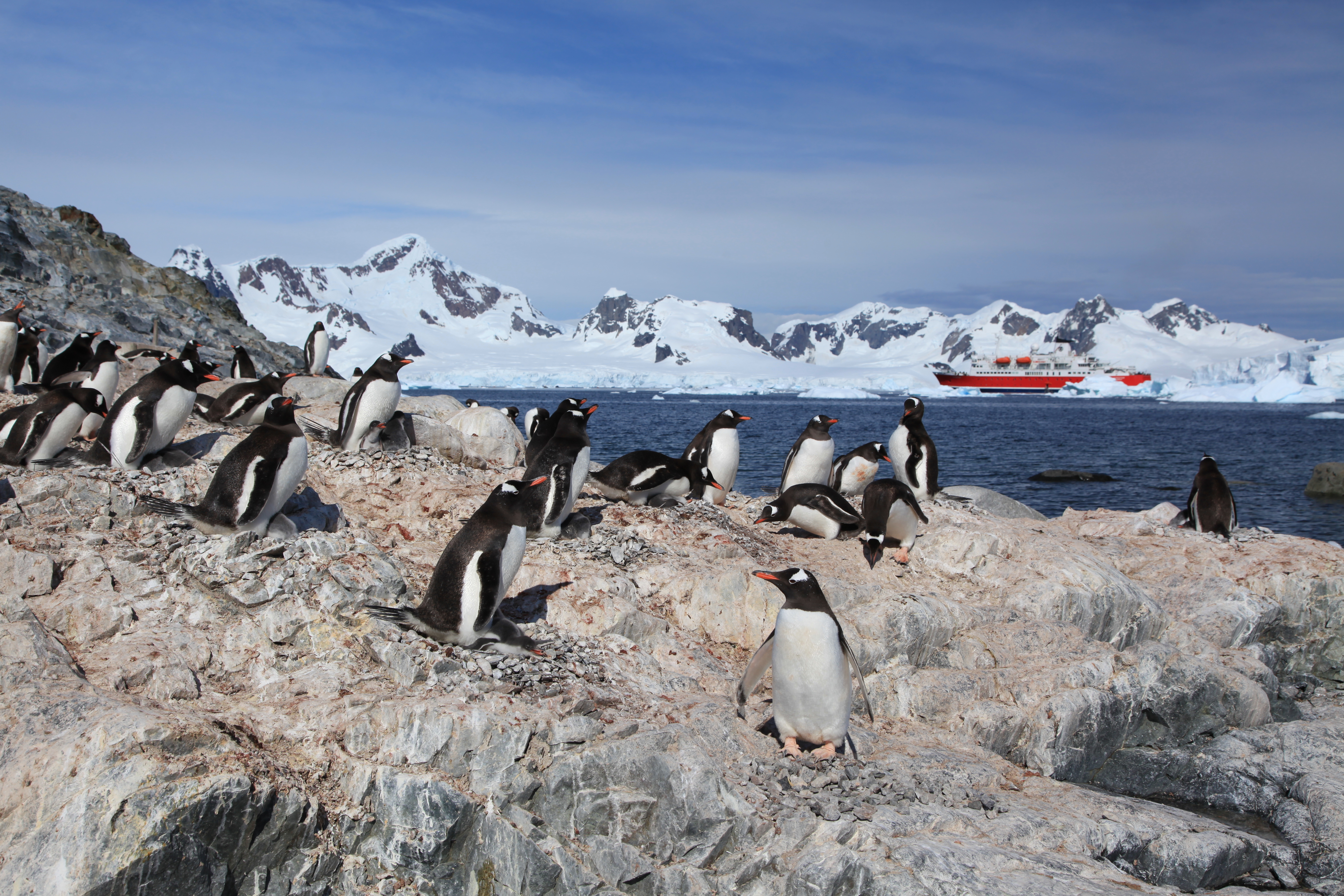 M/S Expedition can be seen among icebergs in the background.